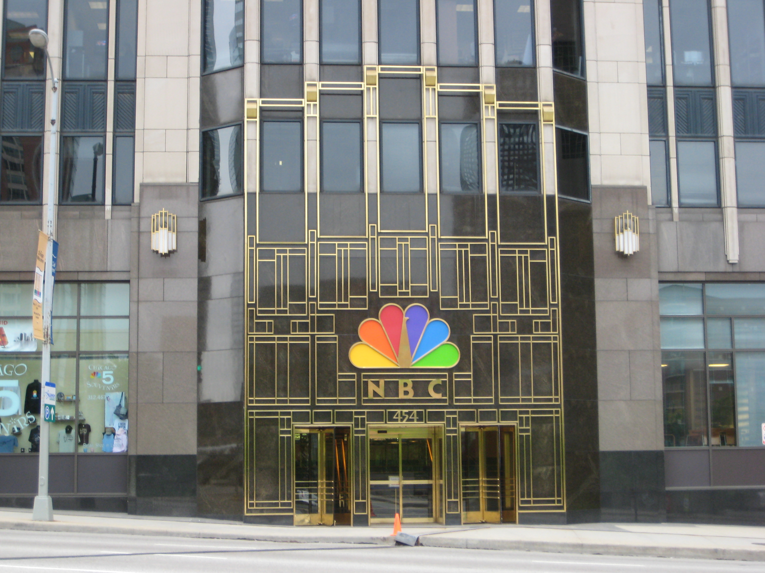 Picture of the Columbus Dr. entrance to NBC Tower in Chicago